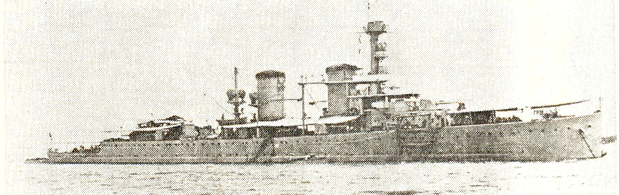 This cruiser was sunk at the end of the Sea Battle in the Java Sea